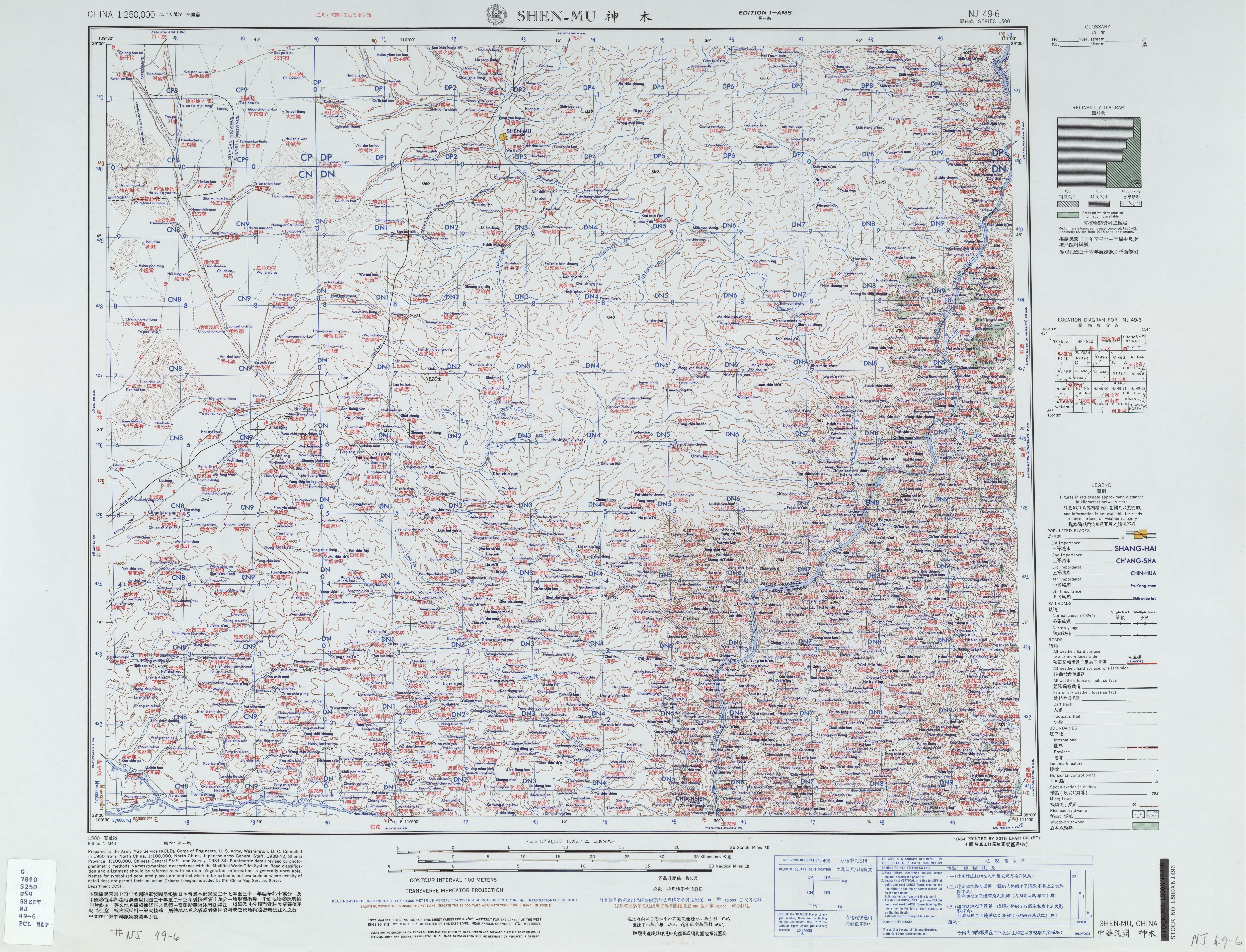 China AMS Topographic Maps